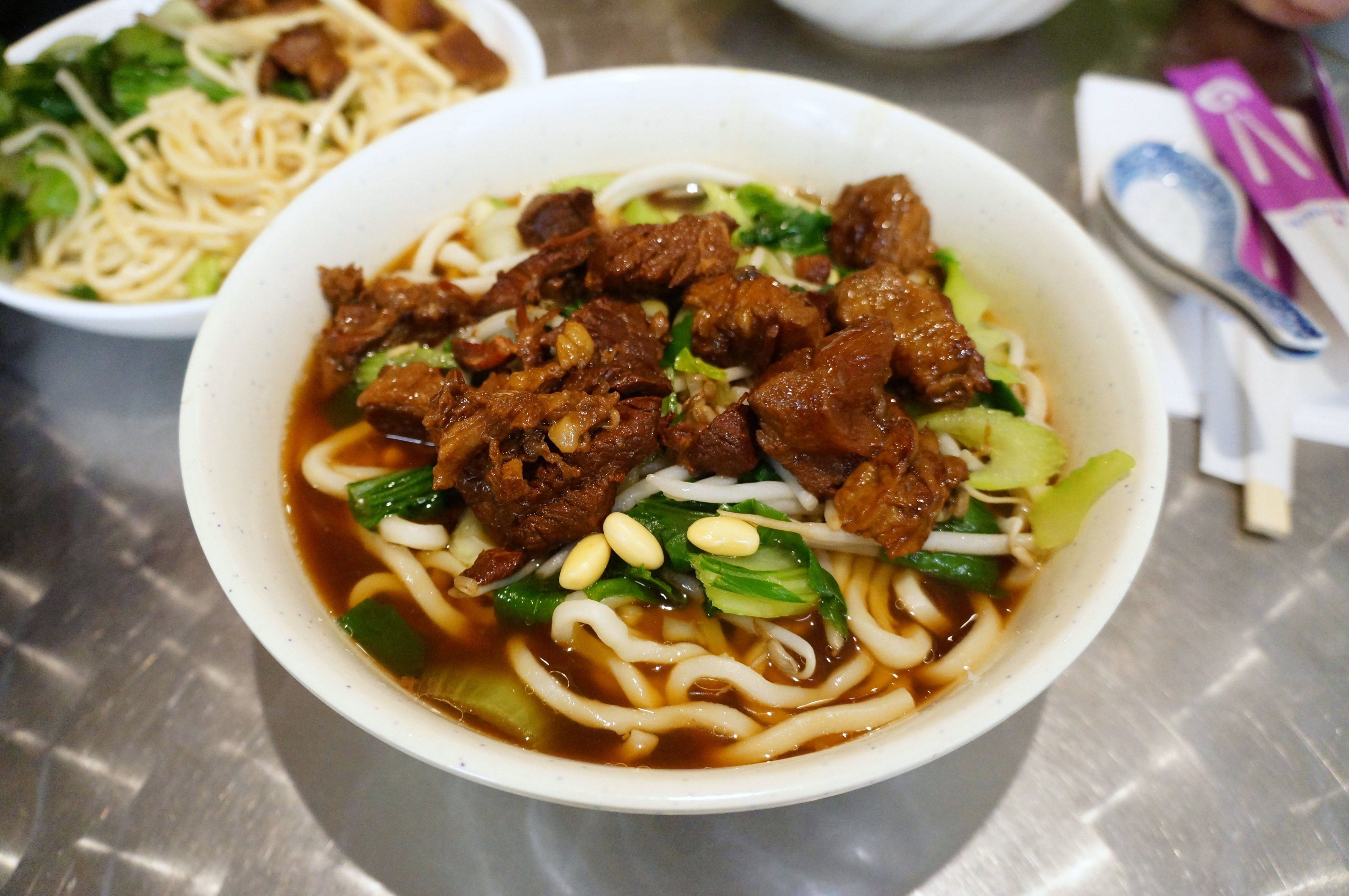 Bowl full of noodles with marinated beef, bok choy, celery and green pea shoots